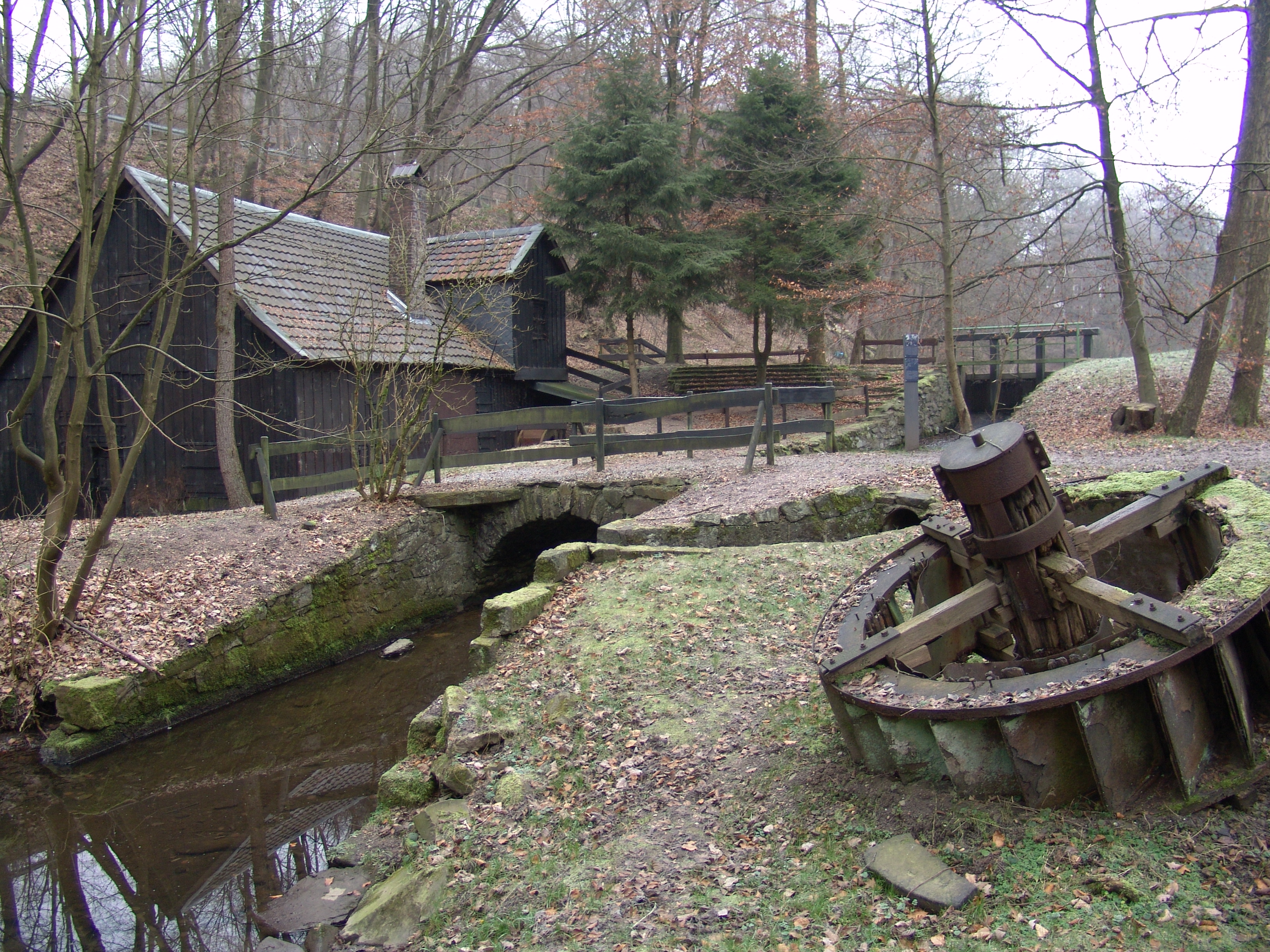 The Hilbertshammer at the Leyerbach in Remscheid